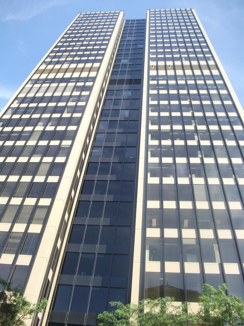 The head office of Transport Canada - 330 Sparks St Ottawa